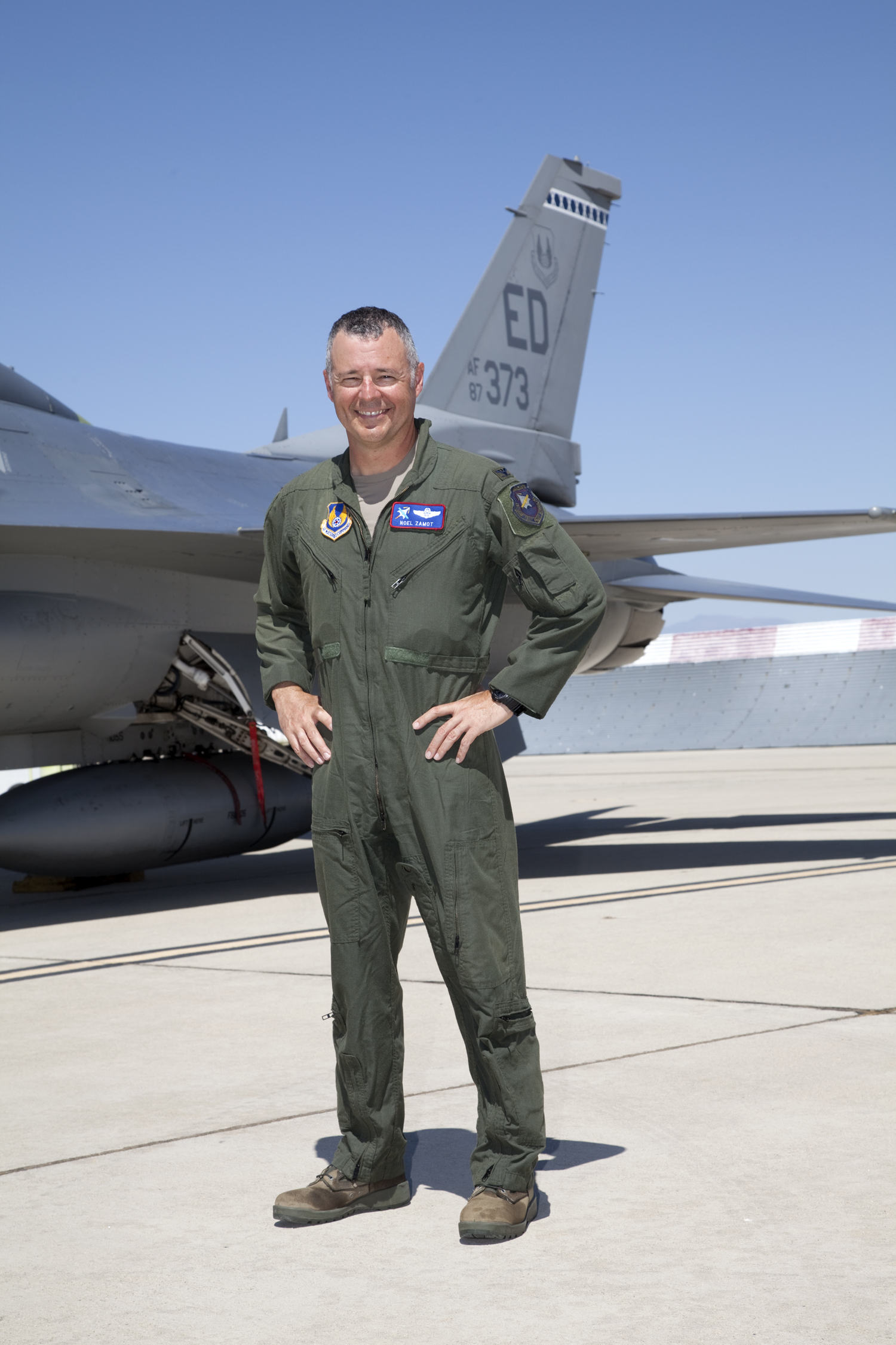 Col. Noel Zamot retired from the United States Air Force June 15 after 25 years of distinguished service. Serving as a weapons systems officer, the Test Pilot School graduate and 39th commandant says he will forever be a part of the commitment to America’s airpower.